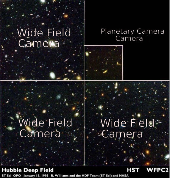 A copy of Image:HubbleDeepField.800px.jpg, with the different detectors of the Wide Field and Planetary Camera 2 denoted. I, John Fader, disclaim any copyright that may arise from my modifications of this image (placing such into the public domain). External Links HDF at ESA/Hubble WFPC images at ESA/Hubble